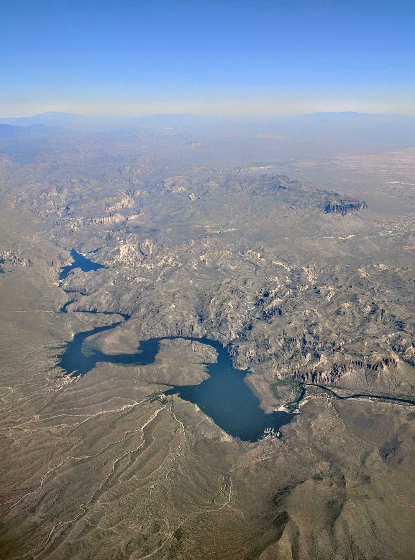 Aerial view of Saguaro Lake, a part of the Salt River Project, on the Salt River upstream of Phoenix